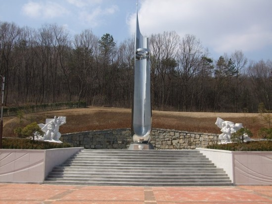 Yongin the 3.1 Hurray Movement of Memorial Tower